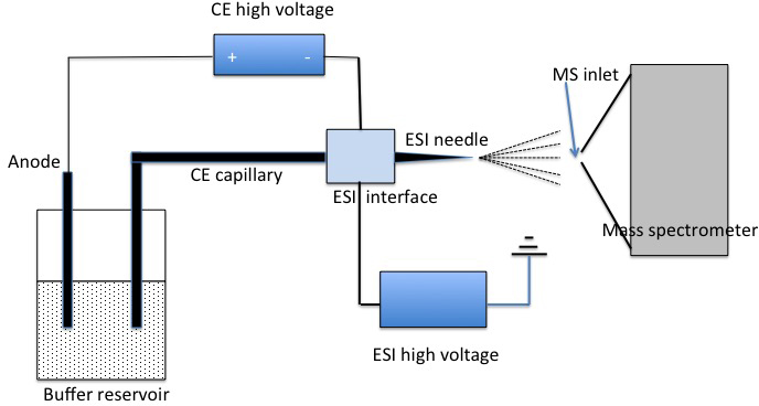 Schematic Diagram of CE/ESI-MS